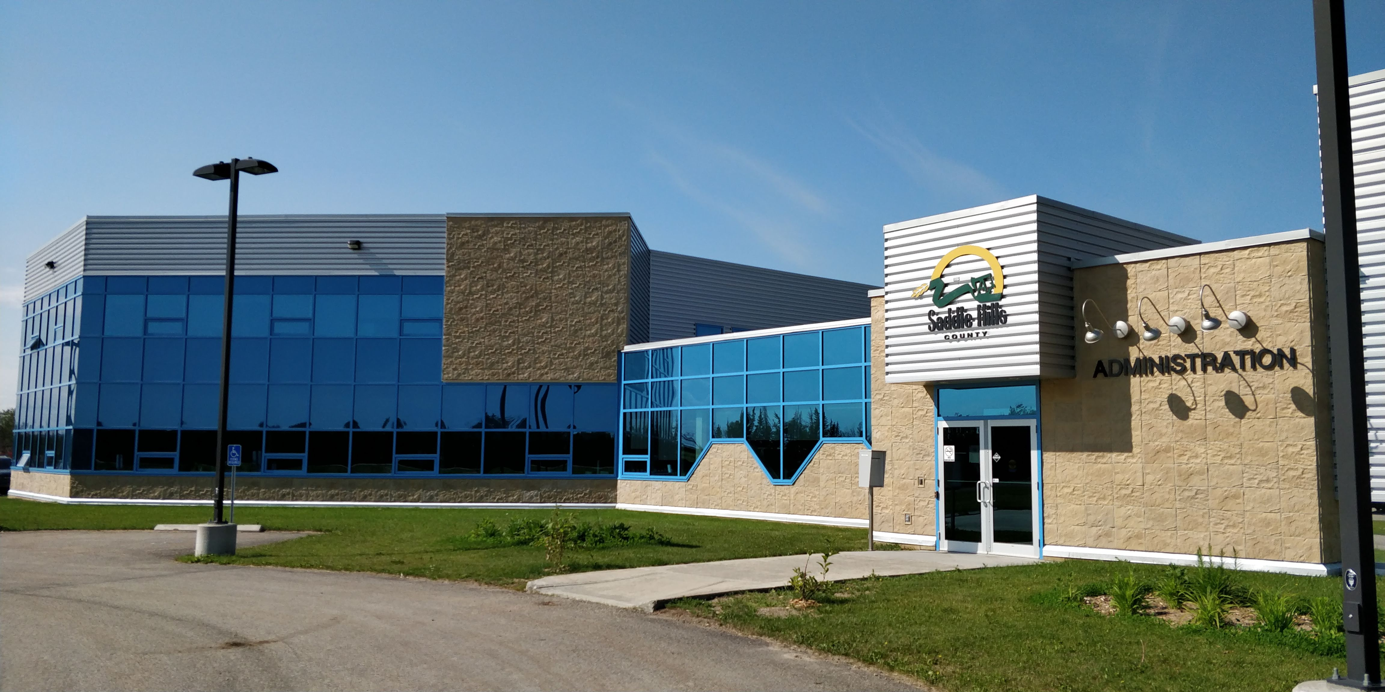 The brand-new Saddle Hills County administration building, located at a rural highway intersection.